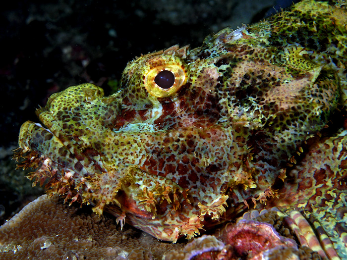 Scorpionfish stare